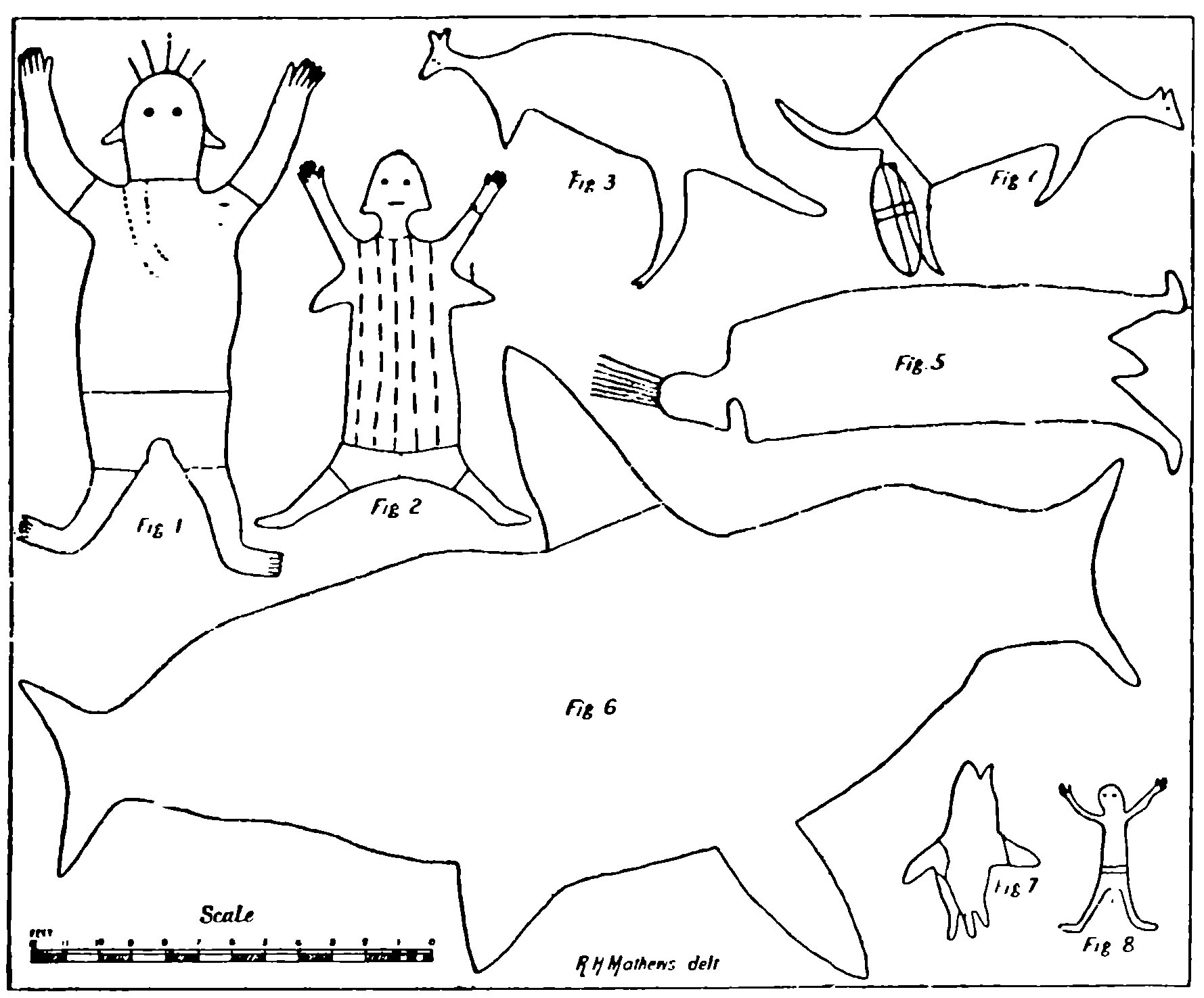 Aboriginal Rock Carvings